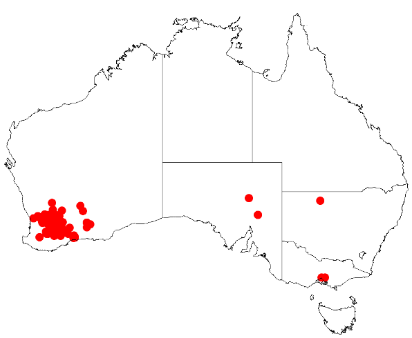 Acacia leptopetala Occurrence data from Australasia Virtual Herbarium downloaded from on 8 December 2018